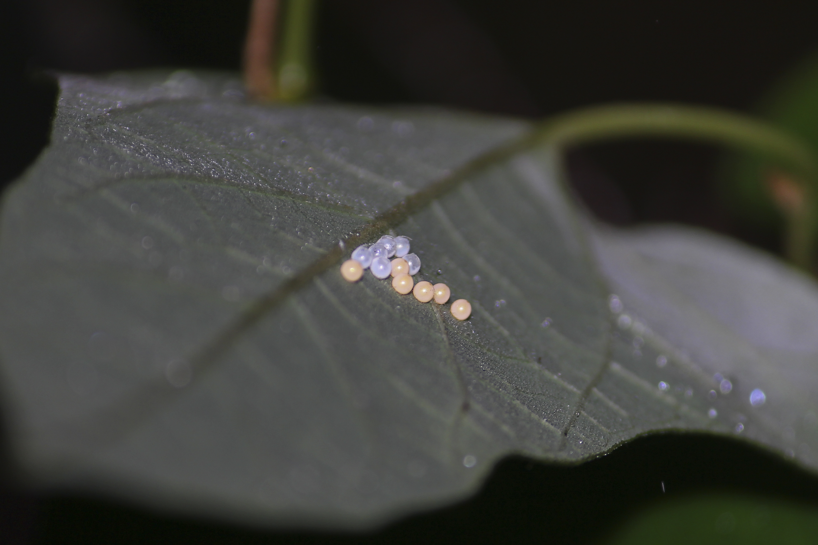 Eggs of Bhutanitis lidderdalii Atkinson, 1873 – Bhutan Glory.